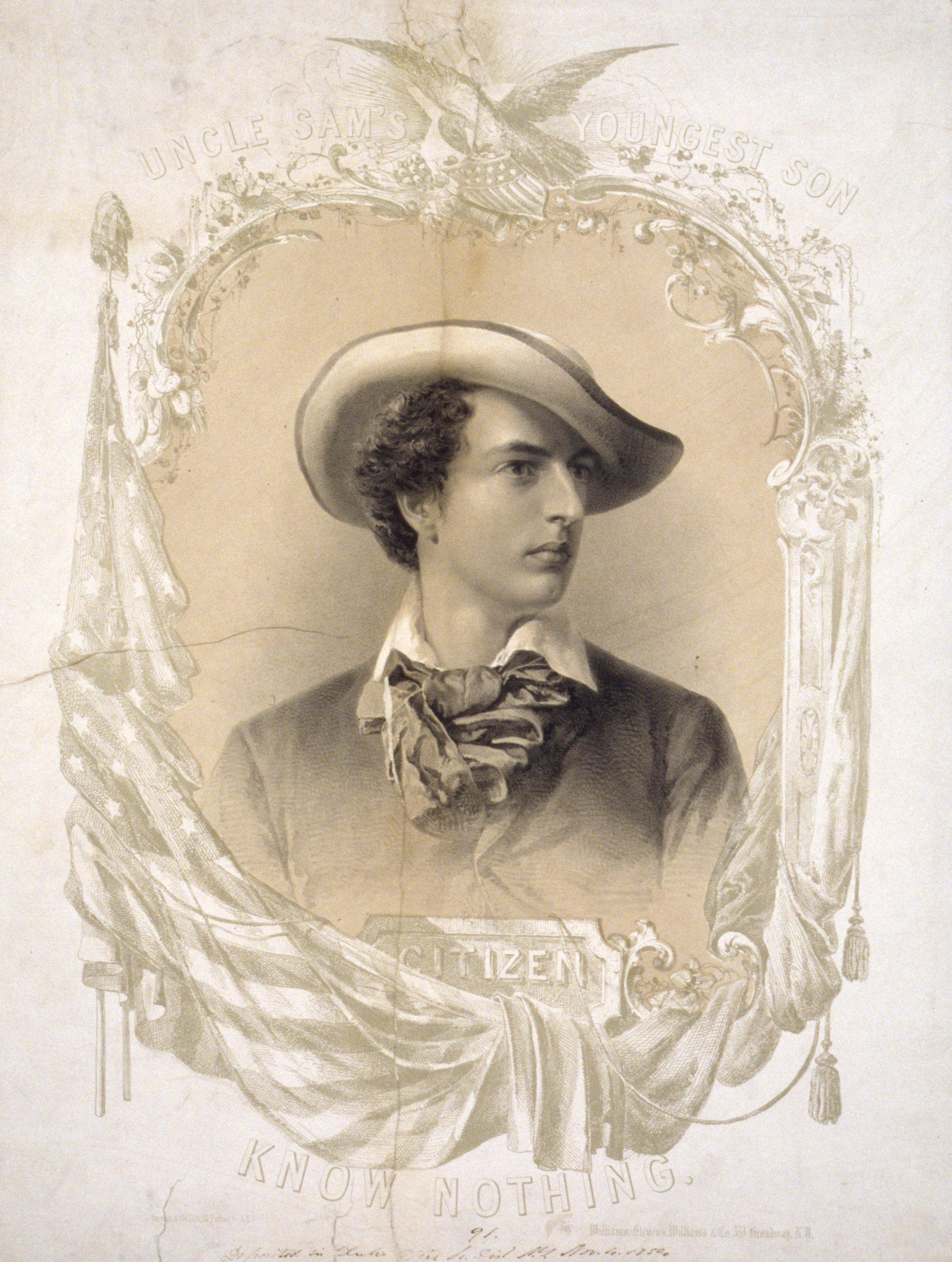 Uncle Sam's youngest son, Citizen Know Nothing. "A bust portrait of a young man representing the nativist ideal of the Know Nothing party. He wears a bold tie and a fedora-type hat tilted at a rakish angle. The portrait is framed by intricate carving and scrollwork surmounted by an eagle with a shield, and is draped by an American flag. Behind the eagle is a gleaming star. The flag hangs from a staff at left which has a liberty cap on its end. The Citizen Know Nothing figure appears in several nativist prints of the period (for instance "The Young America Schottisch," no. 1855-5) and is probably an idealized type rather than an actual individual. The publishers, Williams, Stevens, Williams & Company, were art dealers with a gallery on Broadway."